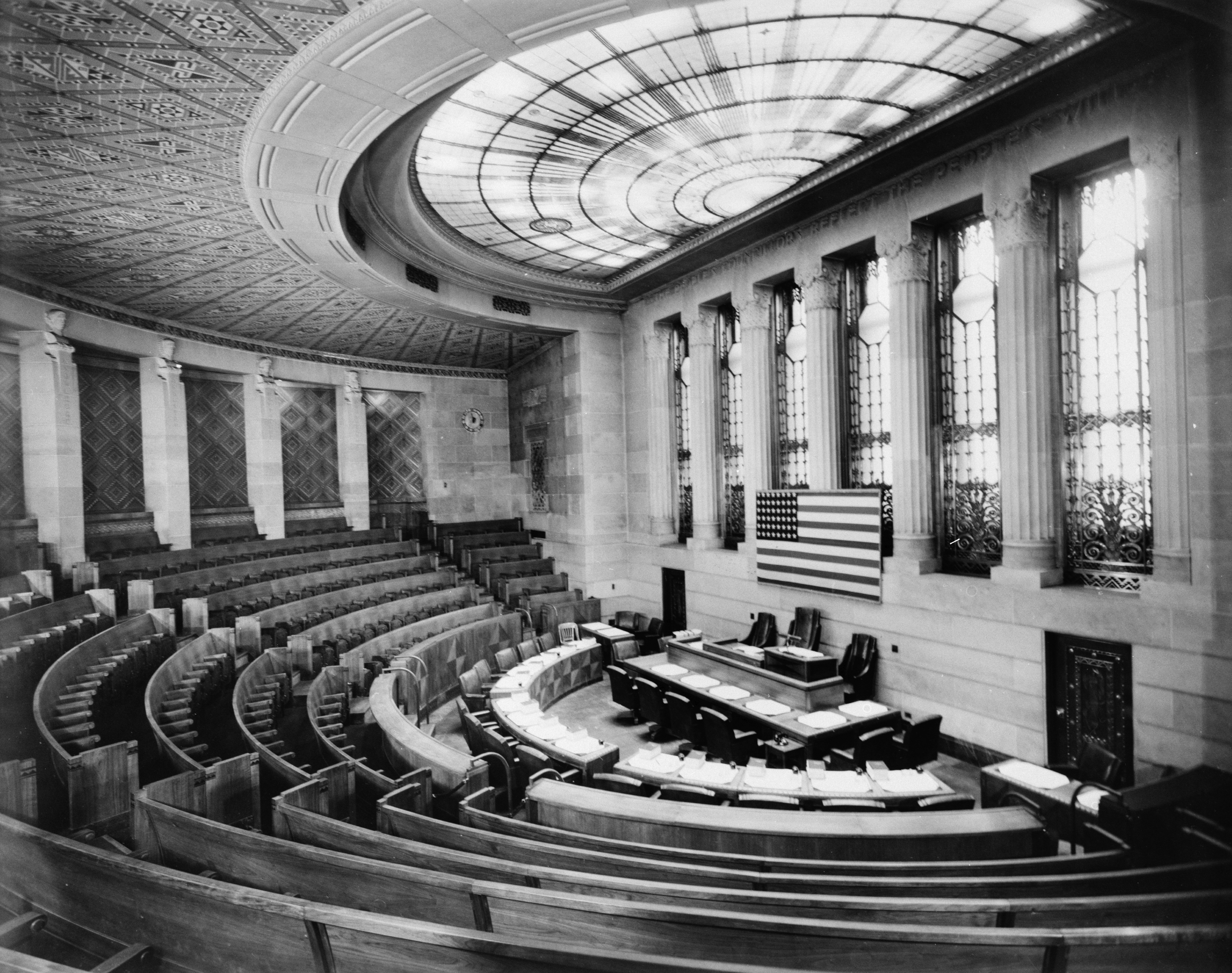 Original description: Buffalo City Hall, Interior,thirteenth floor,council chamber Removed caption read: HABS No. NY-6033-12